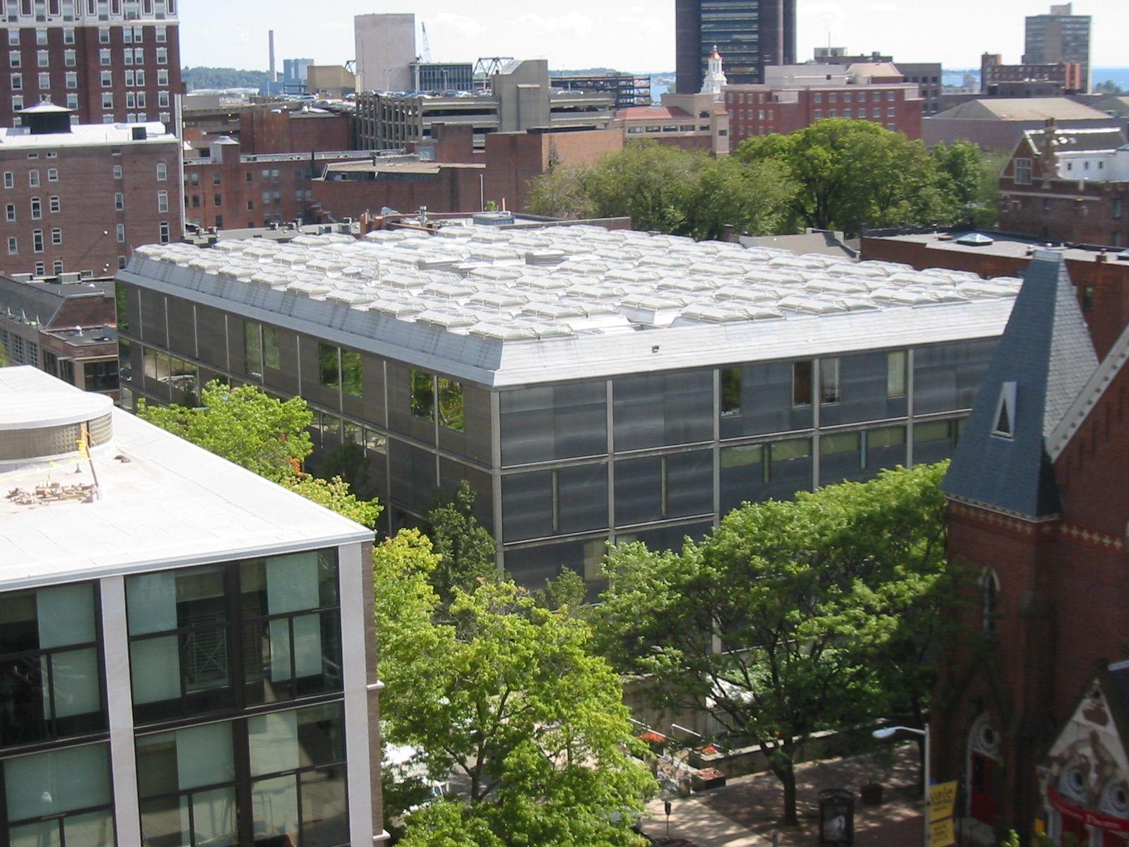 The Center for British Art at Yale University, designed by Louis Kahn. As photographed from the roof of the nearby Architecture building.